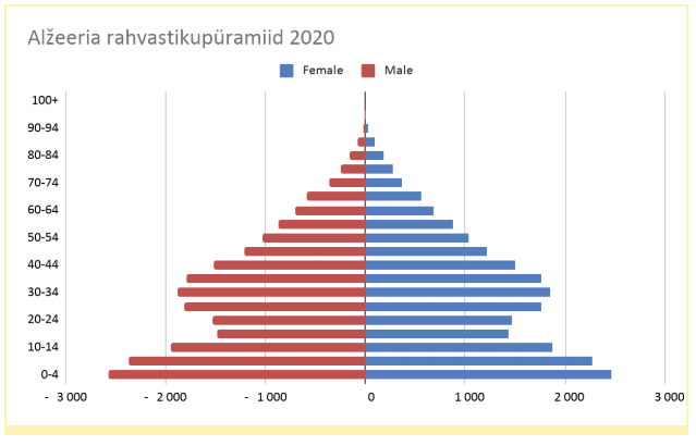 Alžeeria rahvastikupüramiid